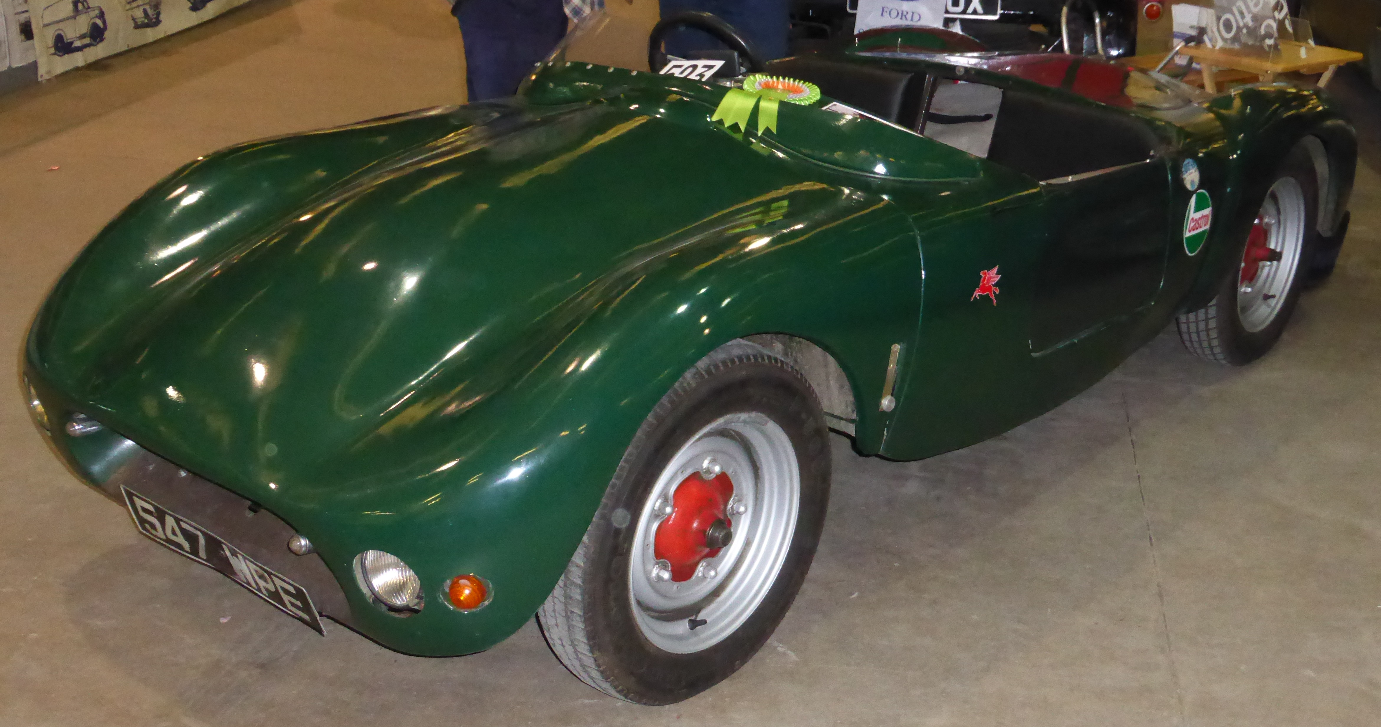 Great Western Classic Car Show, Royal Bath & West Showground, near Shepton Mallet, Somerset. Sunday 12 February 2017.